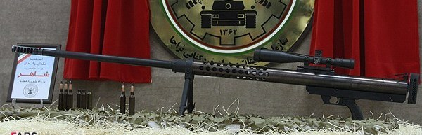 Shaher (Iranian sniper rifle)